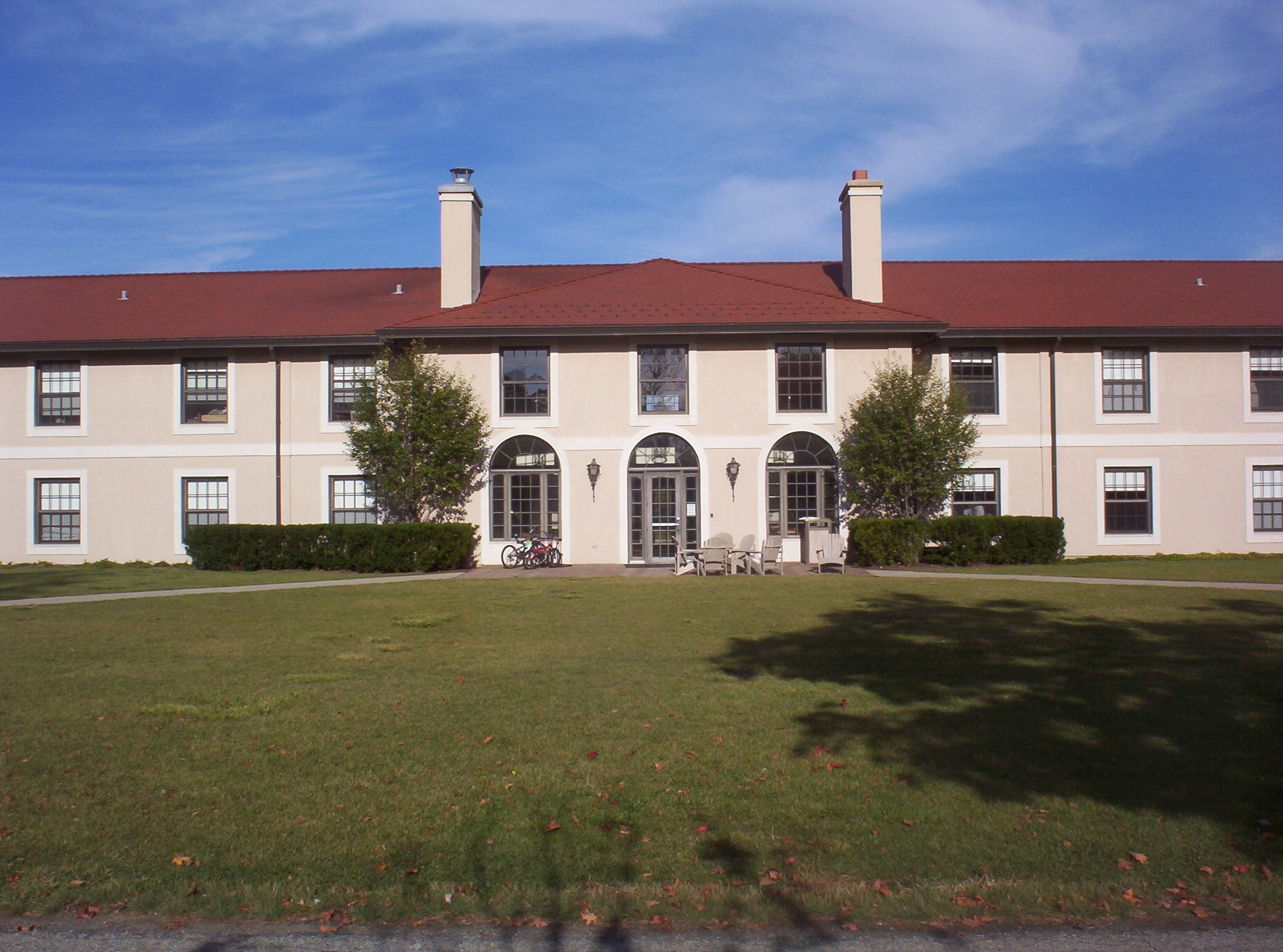 Photograph of the Atlass Hall at Lake Forest Academy. I took this photo myself and hereby release all rights.